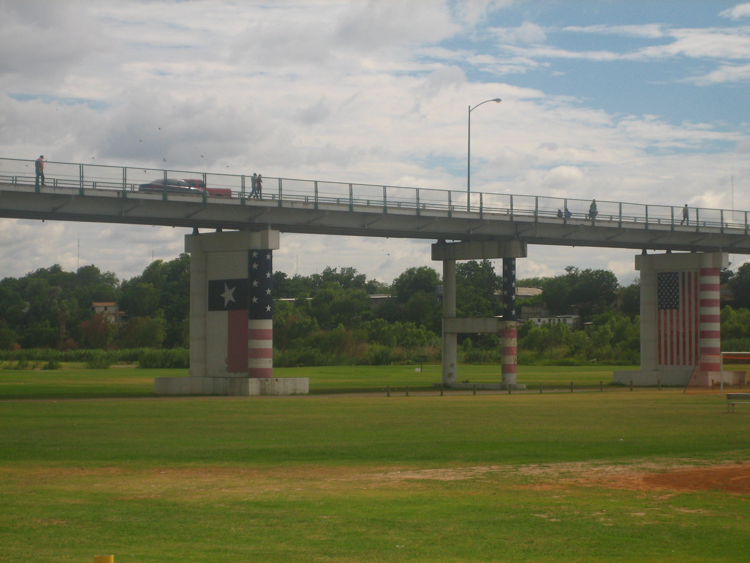 I took photo on July 8, 2008.Billy Hathorn (talk) 04:02, 27 July 2008 (UTC)